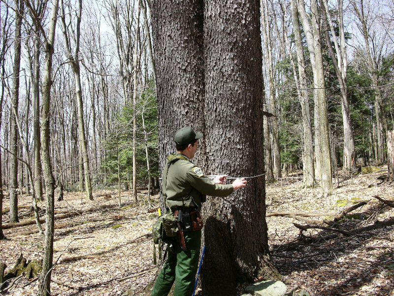 Photo of a double-trunked black cherry at Cook Forest State park, PA